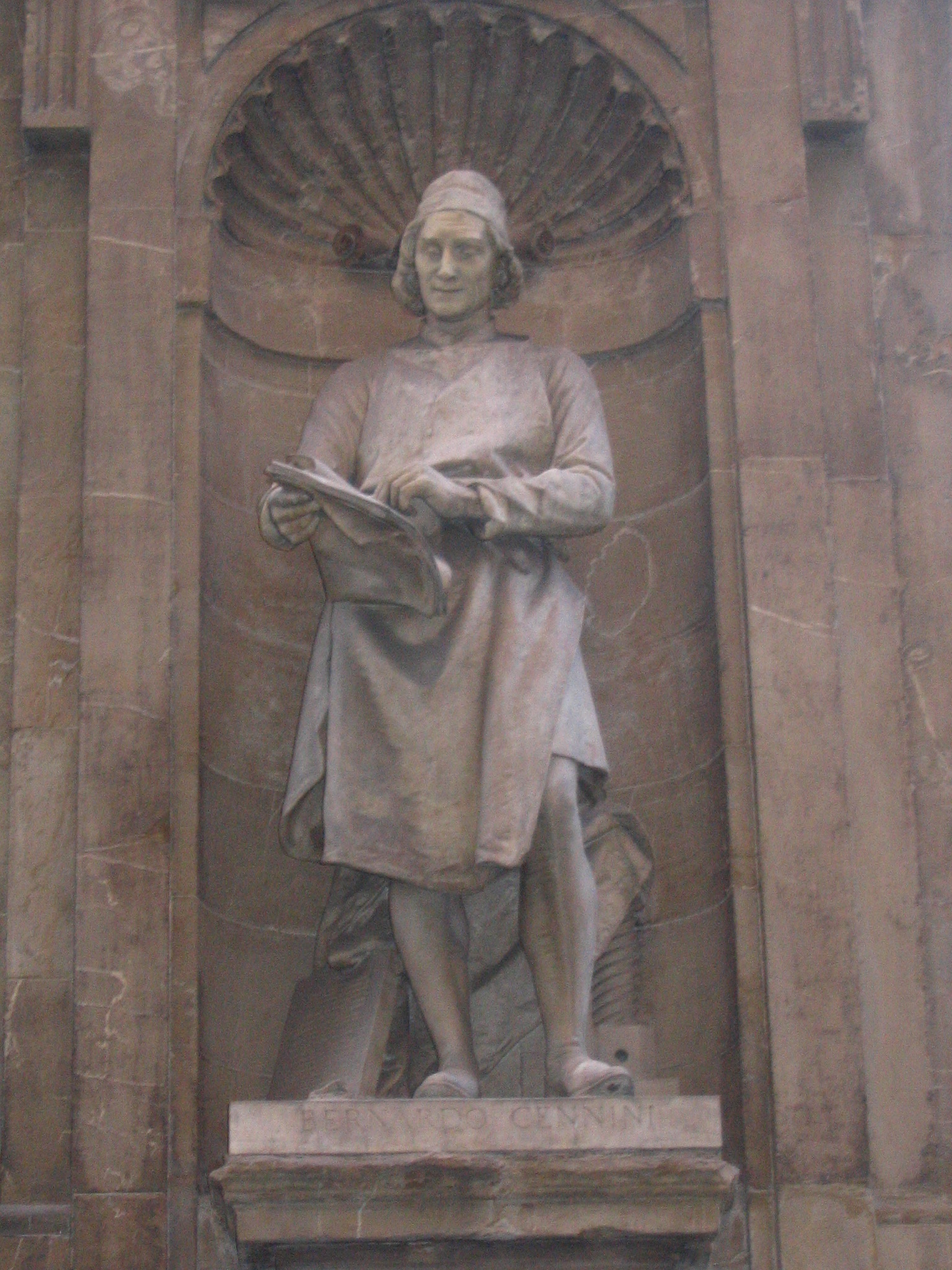 Bernardo Cennini. Statue in the Loggia del Mercato Nuovo in Florence (Italy).